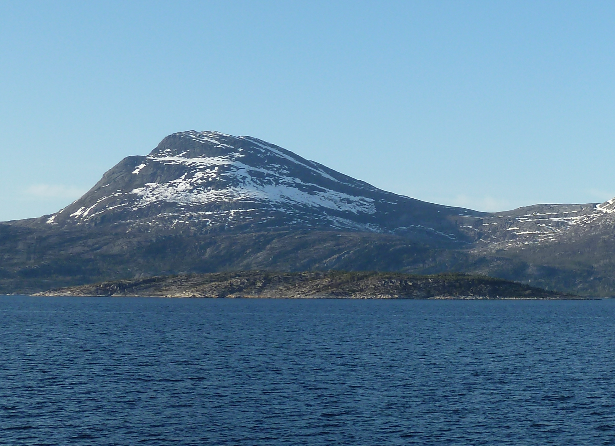 Tysfjorden in Nordland, Norway. Showing Bekkenesholmen, a smal island and nature reserve, viewed from the ferry from Skarberget to Bognes.